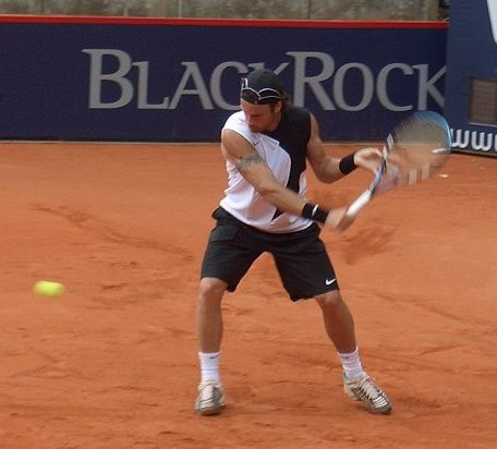 Carlos Moya playing James Blake at the Hamburg Masters 2007 This is a retouched picture, which means that it has been digitally altered from its original version. Modifications: {1 }.